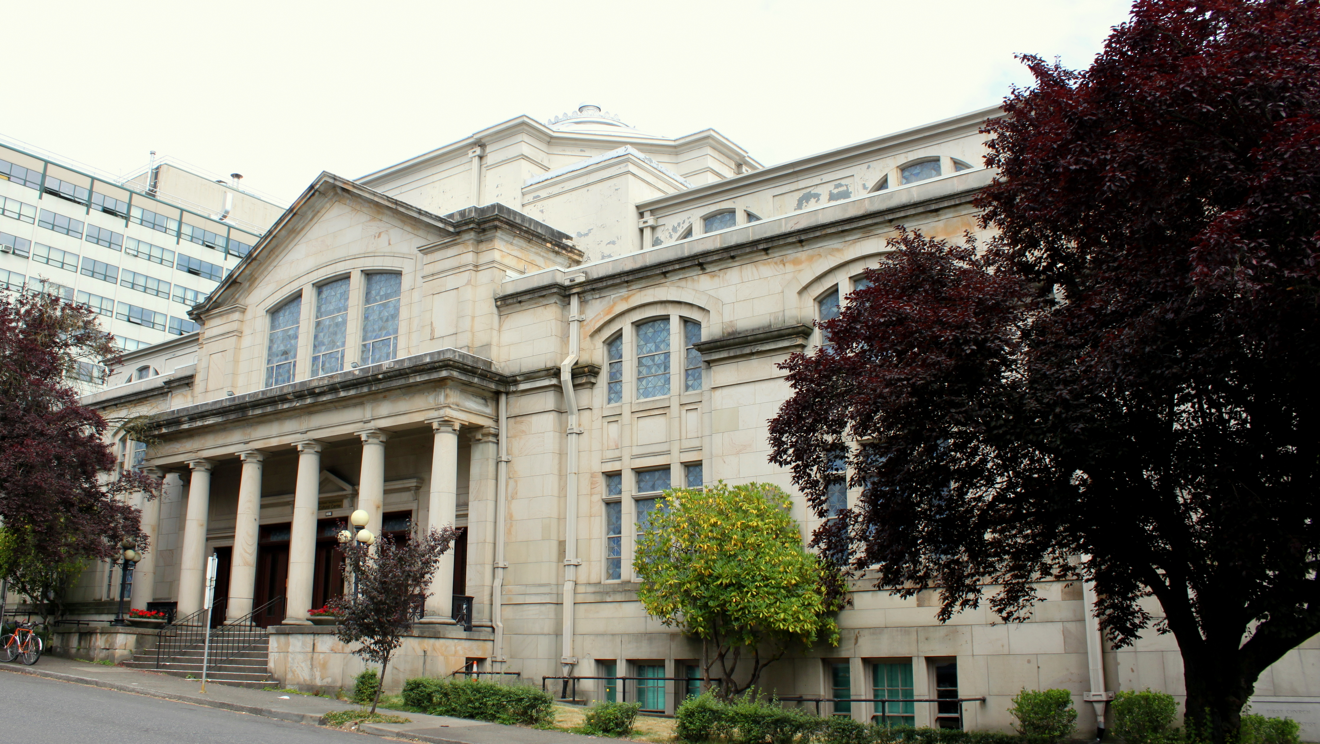 First Church of Christ, Scientist (Portland, Oregon), aka the Northwest Neighborhood Cultural Center in Portland, Oregon.